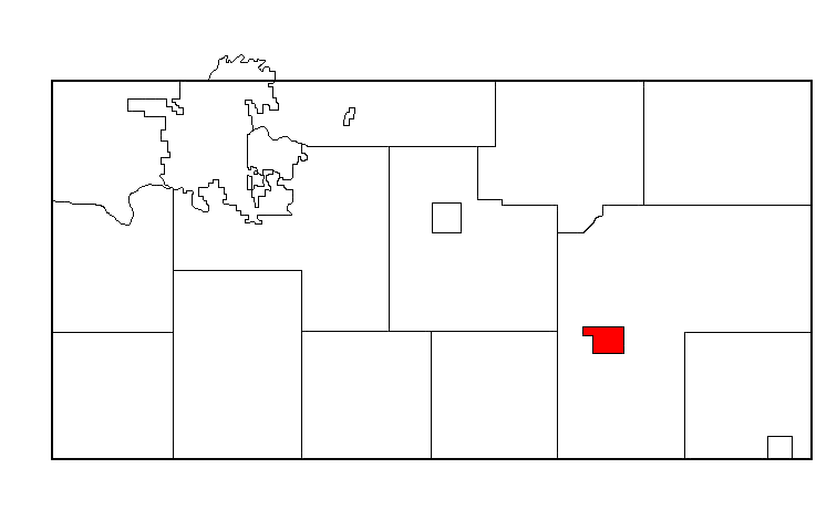 I made this map to show where Augusta is situated in Eau Claire County.